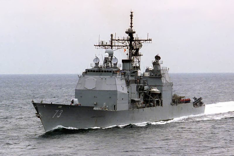 Official Navy photo of USS Port Royal (CG-73) in 1997, from [1], which says "DoD photo by Petty Officer 3rd Class Christopher Mobley, U.S. Navy", cropped to be a little less artistic :-) and more focused on the ship proper, plus shrunk to 800×533 (the original is gorgeous but a little large at 2100×1500 or so). Taken from enwiki. Original caption: "The USS Port Royal (CG 73) steams in the Persian Gulf as it conducts surface and air defense operations for the USS Nimitz (CVN 68) battle group on Nov. 7, 1997. The Ticonderoga-class cruiser is equipped with AEGIS combat systems, and Tomahawk anti-ship and land attack missiles. The USS Nimitz (CVN 68) battle group is operating in the Persian Gulf in support of the U.S. and coalition enforcement of the no-fly-zone over Southern Iraq. DoD photo by Petty Officer 3rd Class Christopher Mobley, U.S. Navy."